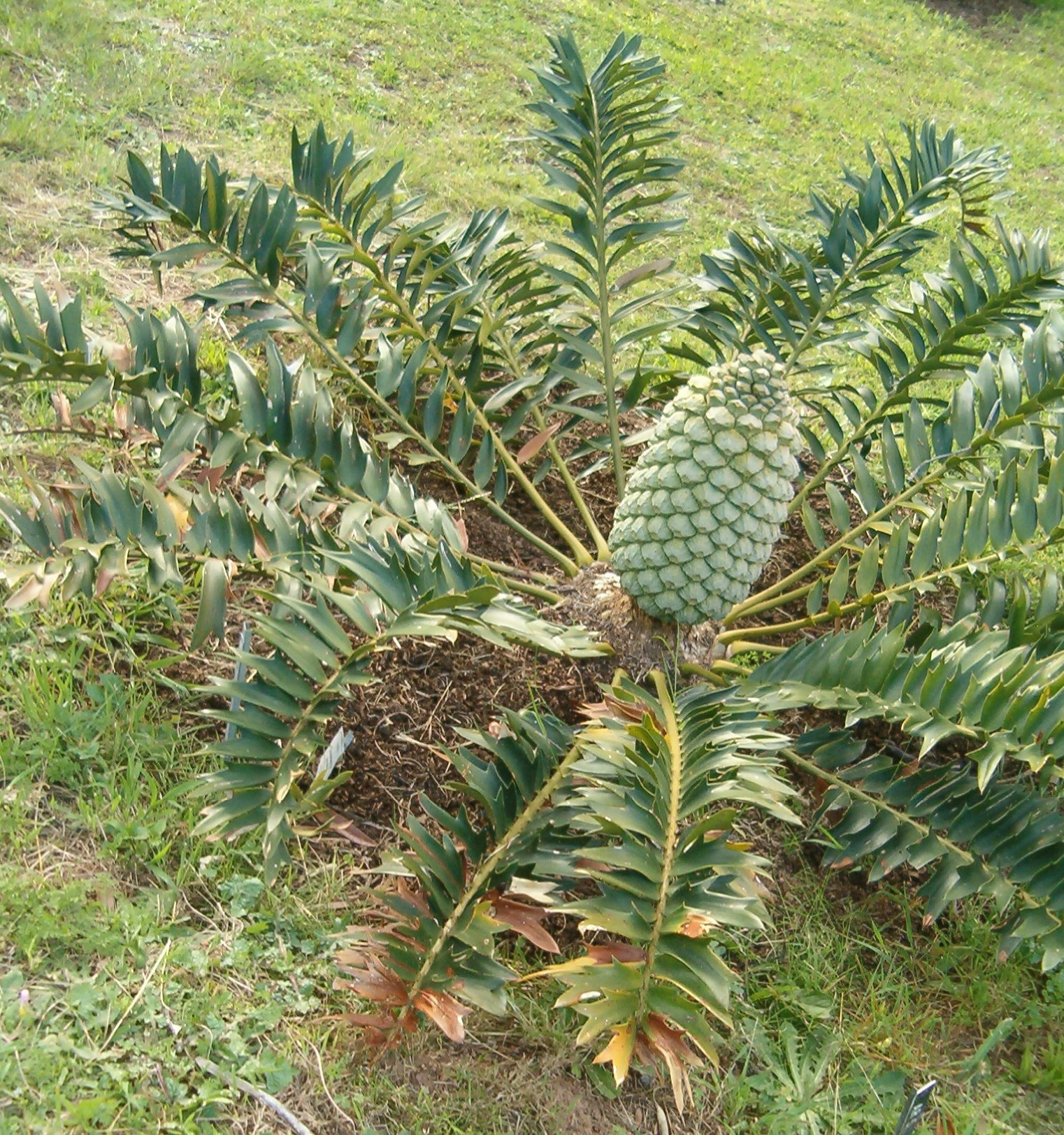 At Kirstenbosch National Botanical Gardens Genus: Encephalartos